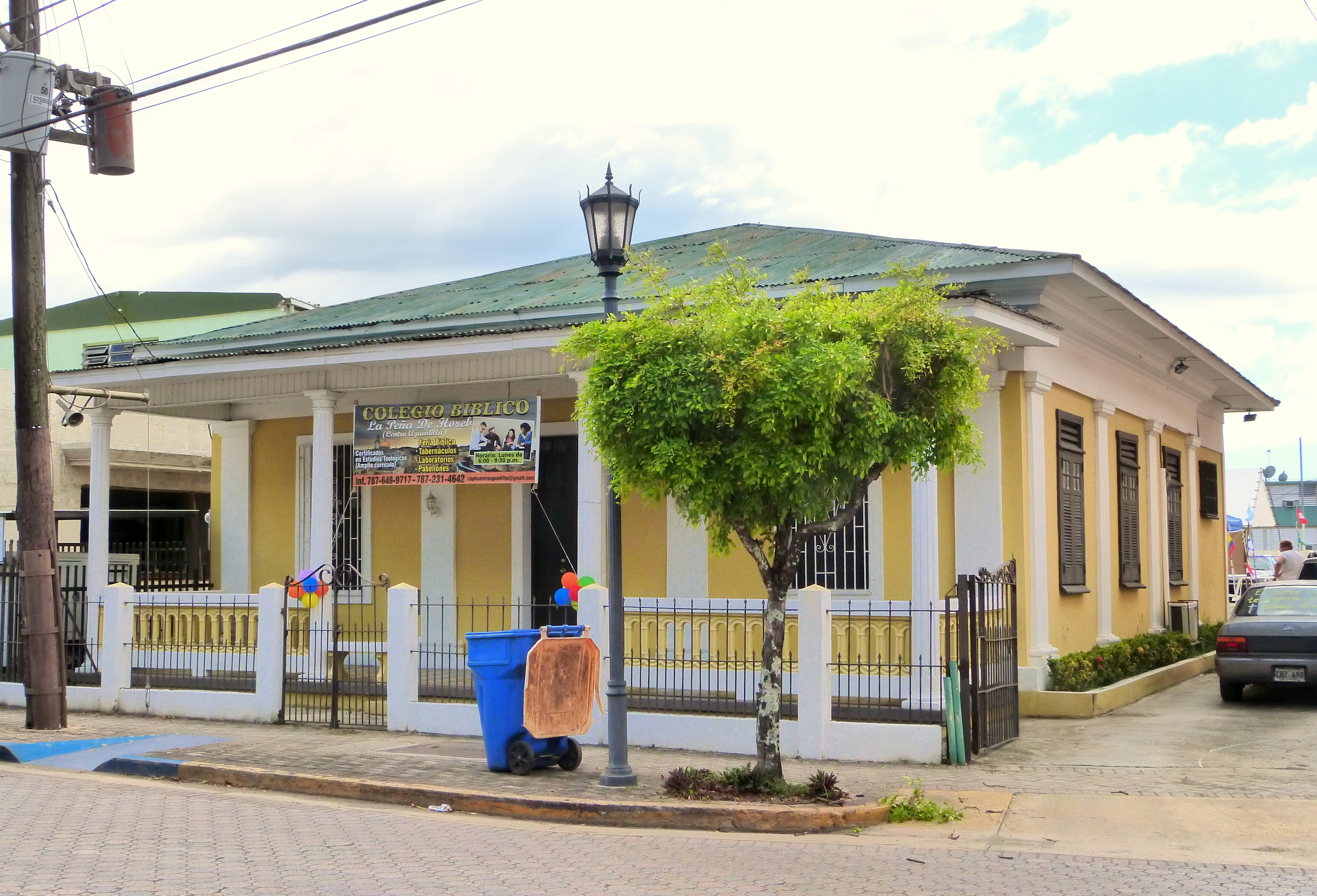 The historic Casa de Piedra (built 1875 over foundations dating perhaps to 1511), located at Calle Progreso #14 in Aguadilla, Puerto Rico, is listed on the U.S. National Register of Historic Places.